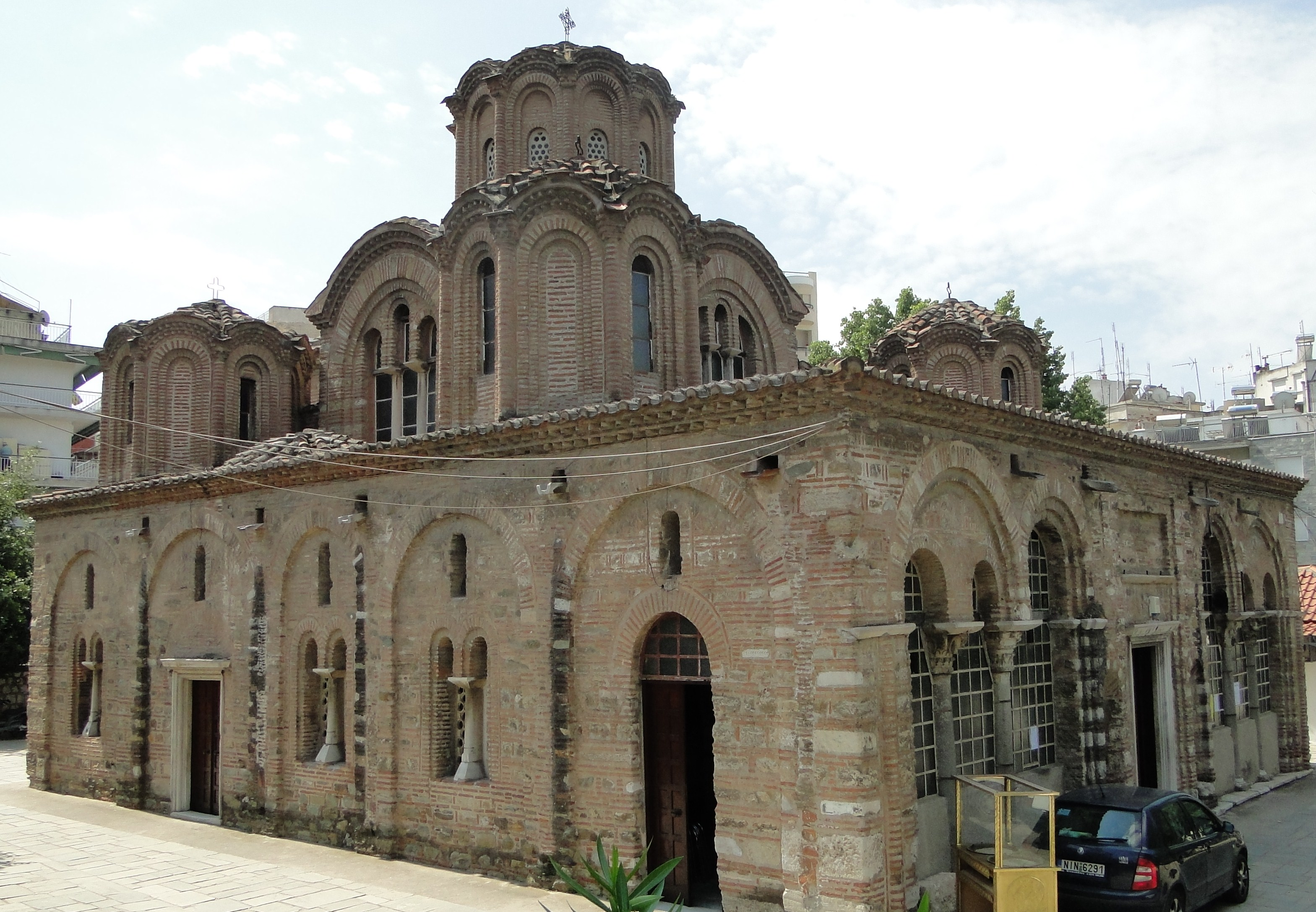 Church of the Twelve Apostles, Thessaloniki.